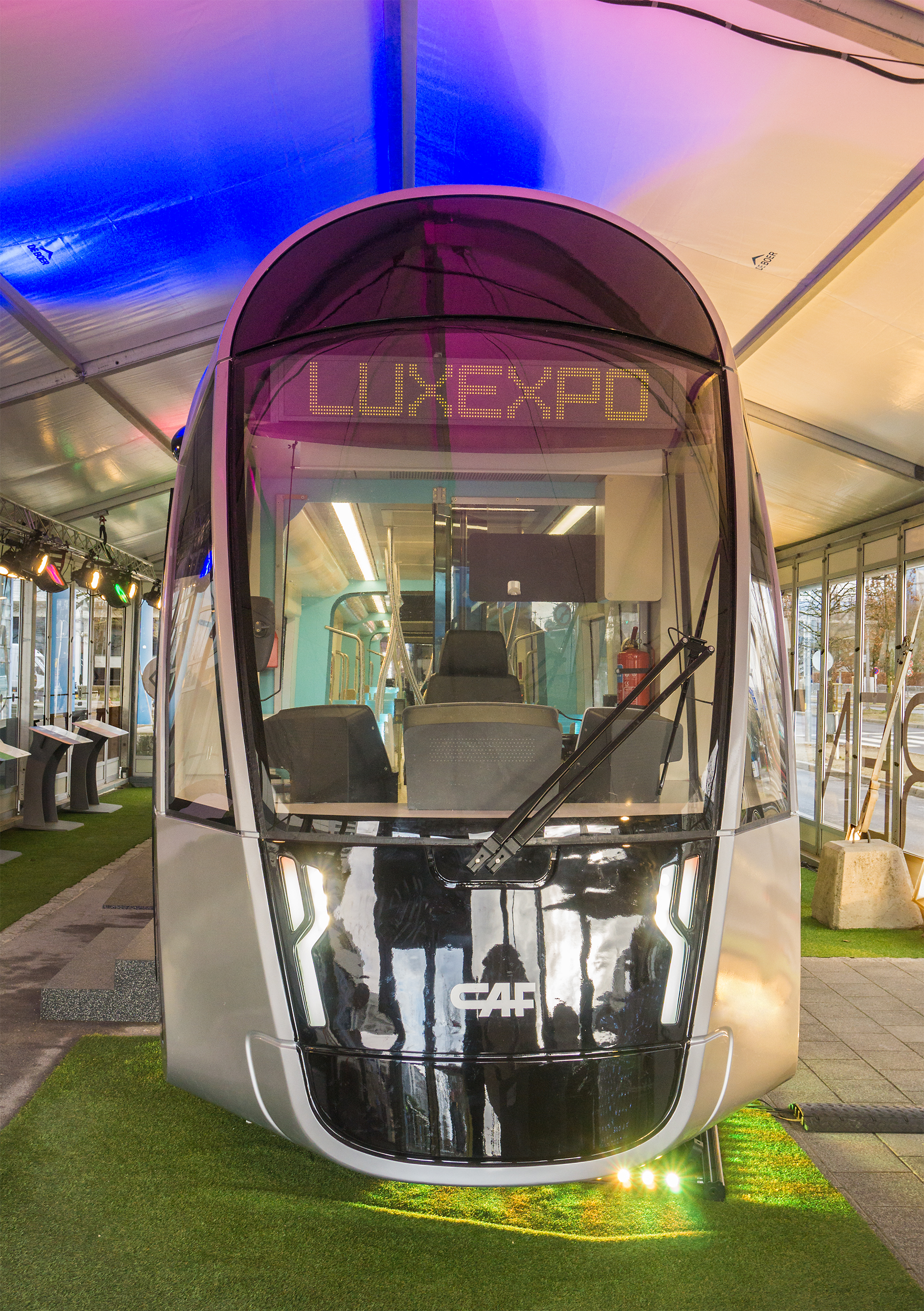 1:1 scale of the projected CAF tram for Luxembourg City which was exposed on Kirchberg for a few months